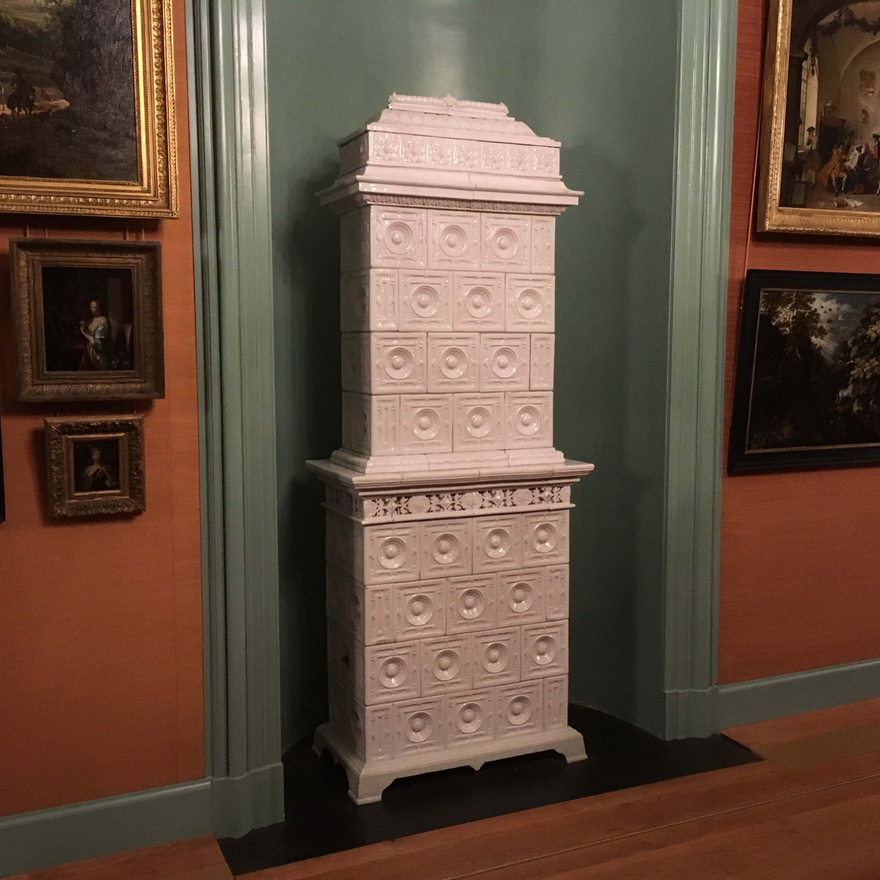 Prince William V Gallery